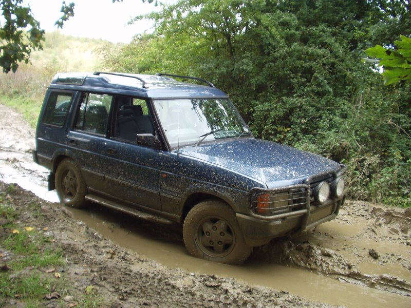 Land Rover Discovery 200 TDi photo taken at Frickley off-road center, Frickley estate, Doncaster, South Yorkshire on 20th October 2006, Vehicle owned by Martin Spamer, Photo by Martin Spamer, Uploaded by Martin Spamer 15th March 2007.